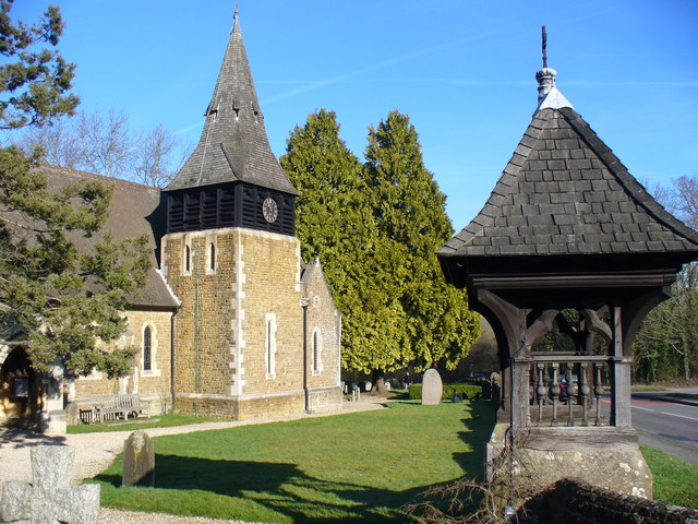 All Saints Church, Grayswood Century old church facing the triangular village green at Grayswood. The church was built 1901-2, funded by Alfred Harman from Grayswood Place. Axel Haig of Haslemere was the architect.